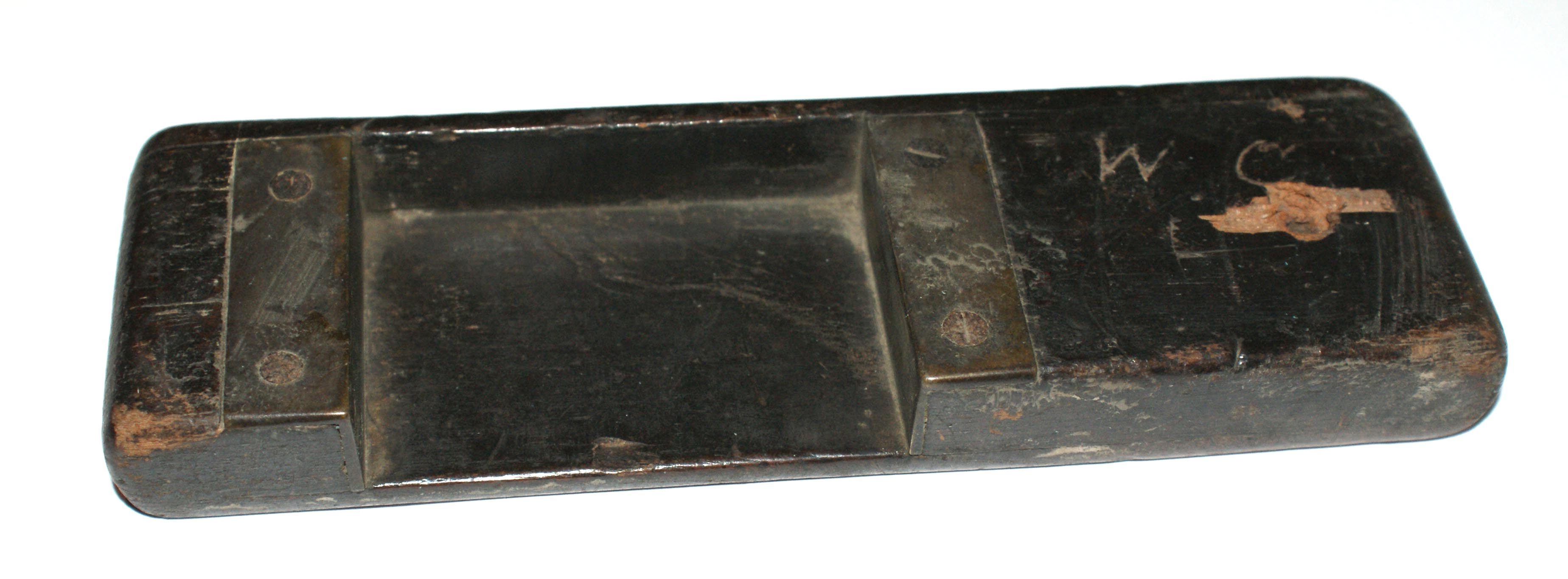 Wooden composing stick with WC scratched on front; hole on right hand side. Fixed length of line for type, with metal shoulders to prevent wear from widening the line. Accession Number: SH.2009.394.1 The compositors job was to set or compose or arrange type in order for printing. In his left hand he would hold a composing stick such as the one shown above. The composing / setting stick is a device which holds the collected type at the required width of the line. In this simple composing stick, this is fixed, and cannot be changed. In his right hand the compositor collects the type from the galley racks and places it in the composing stick. A good compositor would pick up between two and three thousand types an hour. To undertake this job took a great deal of skill and manual dexterity. The type must be placed in the composing stick in the right order and the correct way up to ensure an error free printing. Edinburgh City of Print is a joint project between City of Edinburgh Museums and the Scottish Archive of Print and Publishing History Records (SAPPHIRE). The project aims to catalogue and make accessible the wealth of printing collections held by City of Edinburgh Museums. For more information about the project please visit